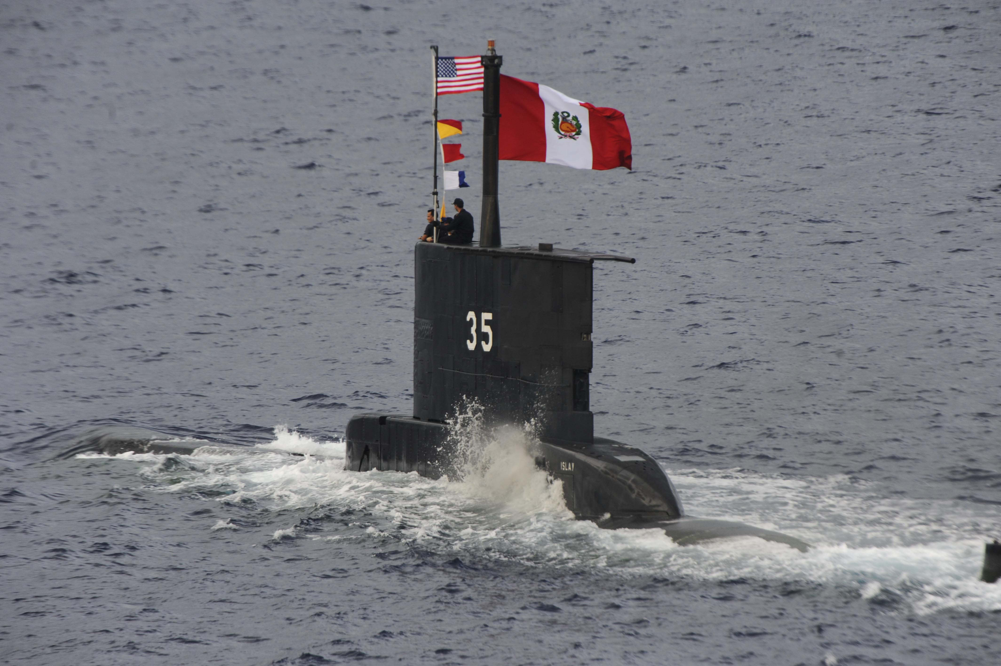 ATLANTIC OCEAN (Sep. 23, 2014) Peruvian submarine BAP Islay (SS-35) pulls alongside the aircraft carrier USS Theodore Roosevelt (CVN 71). Islay participated in a maneuvering exercise with Theodore Roosevelt, the guided-missile cruiser USS Normandy (CG 60), and the guided-missile destroyers USS Winston Churchill (DDG 81), USS Forrest Sherman (DDG 98) and USS Farragut (DDG 99). Theodore Roosevelt is currently out to sea preparing for future deployments. (U.S. Navy photo by Mass Communication Seaman Anthony N. Hilkowski/Released)